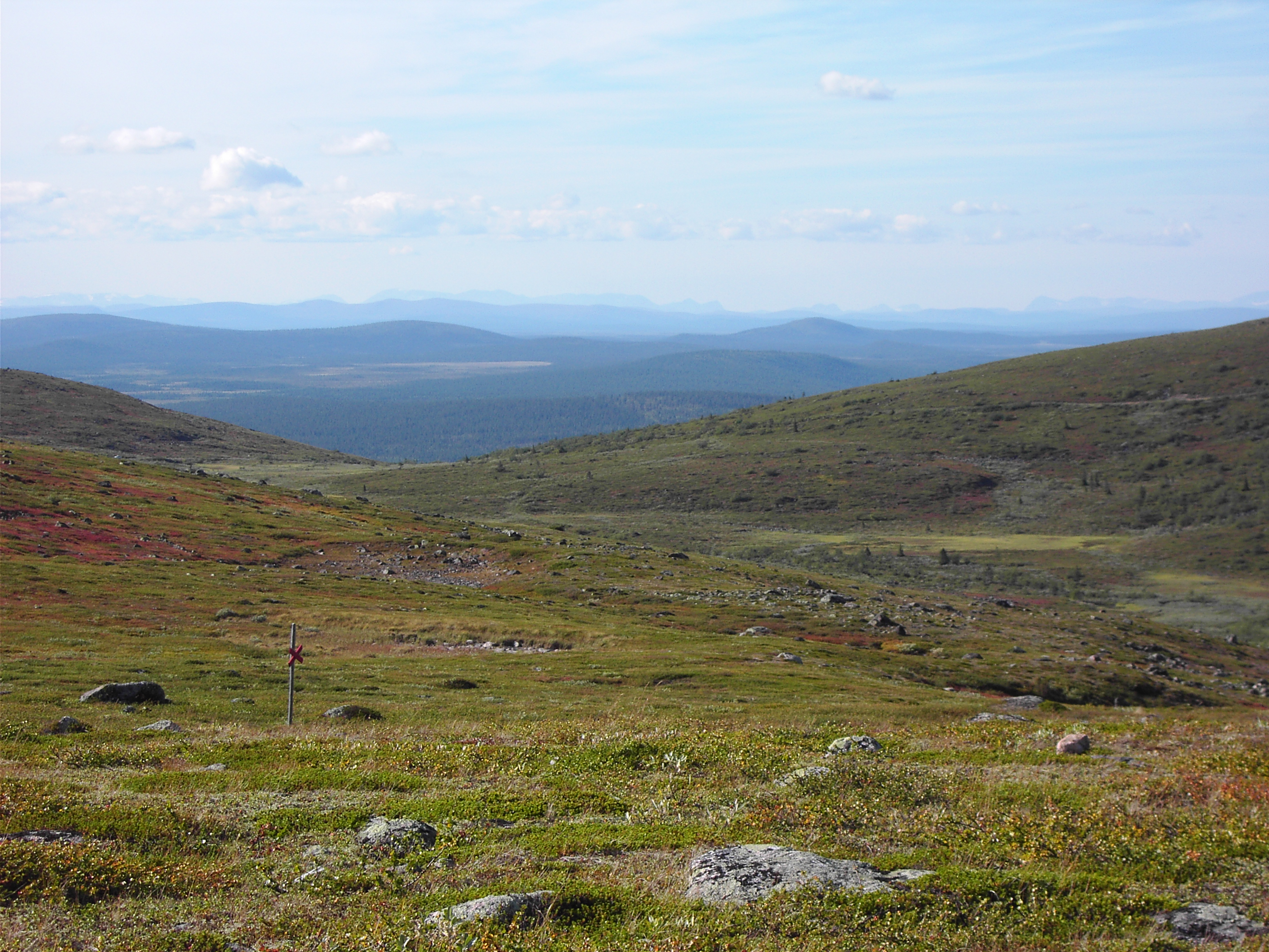 View from Dundret mountain, Gällivare, Sweden